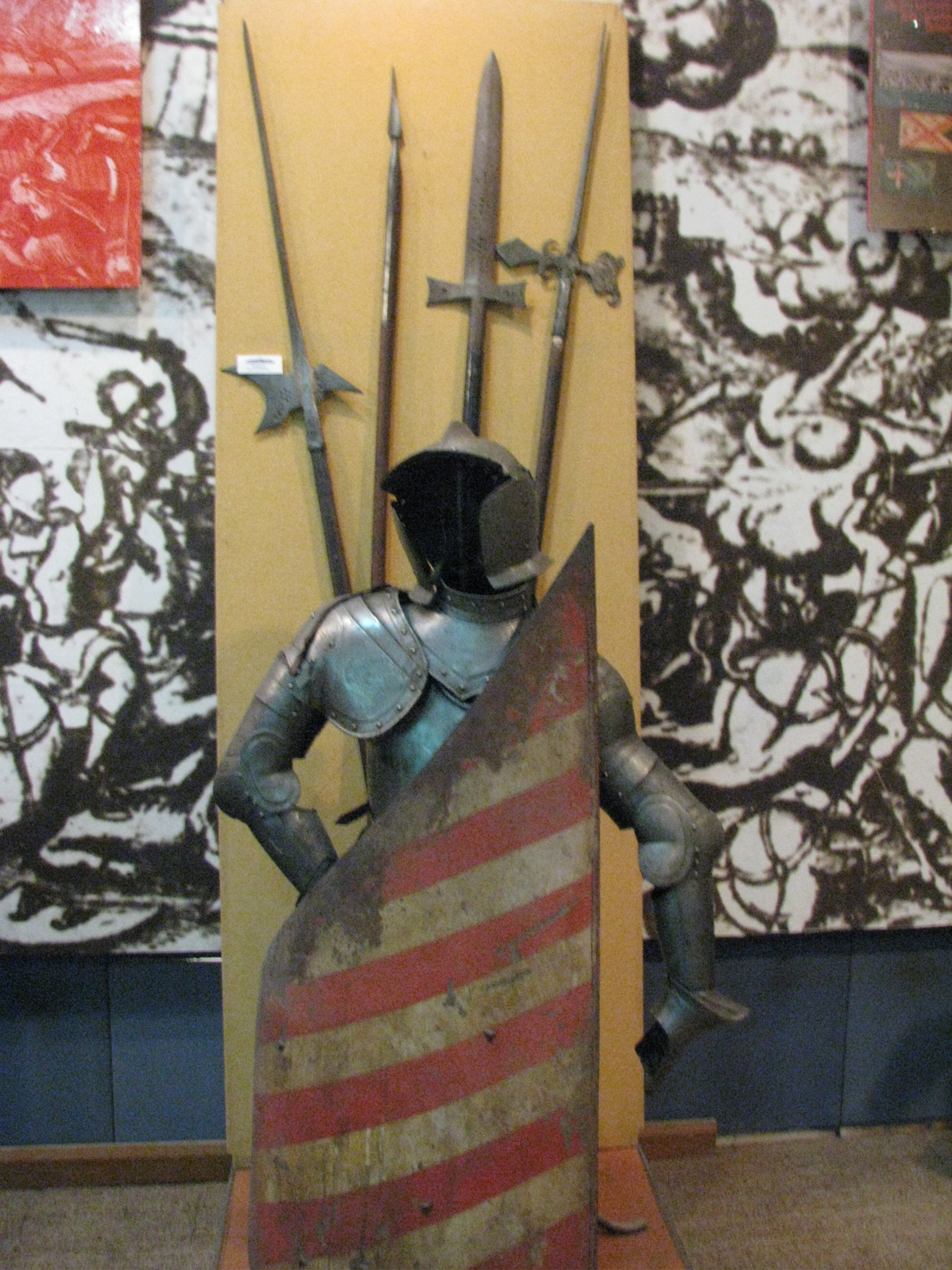 Alba Iulia National Museum of the Union 2011